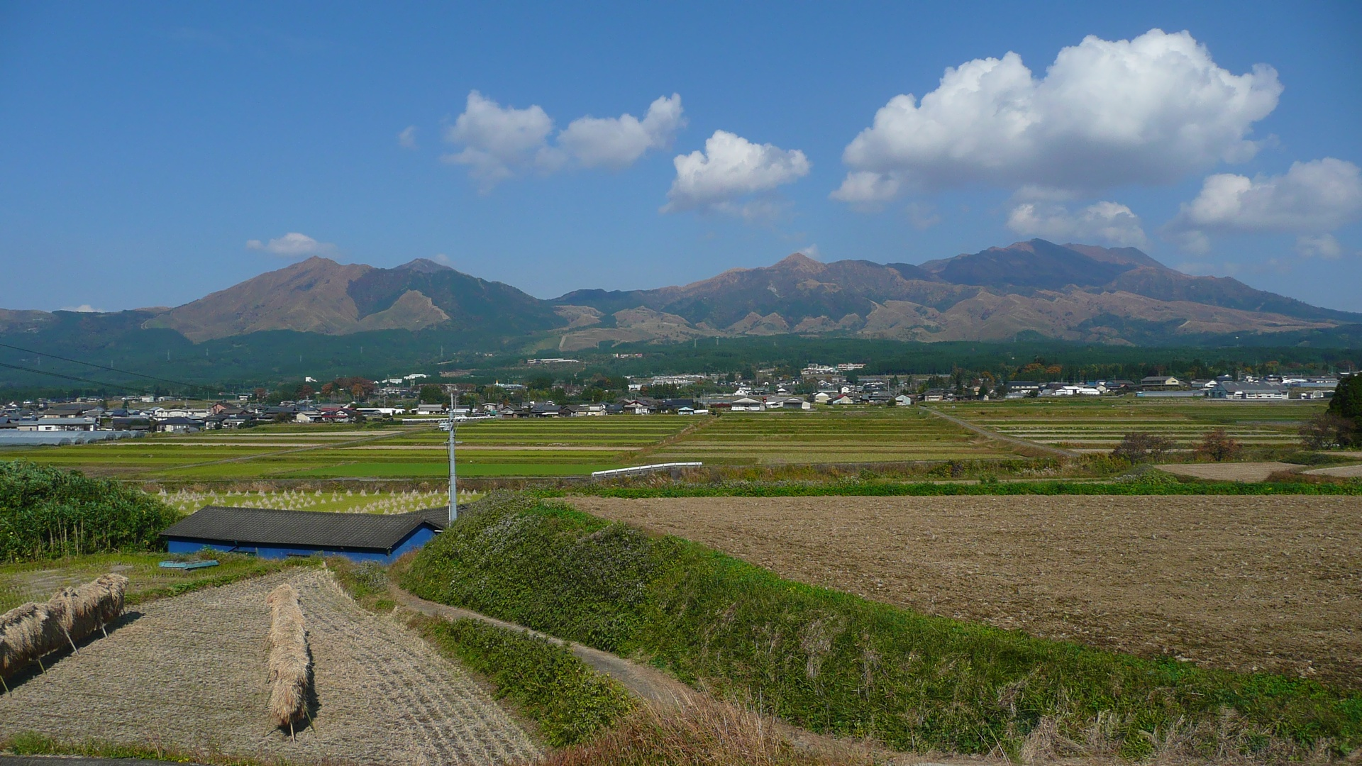 Mt. Aso in Hisaishi, Minamiaso Village, Kumamoto, Japan